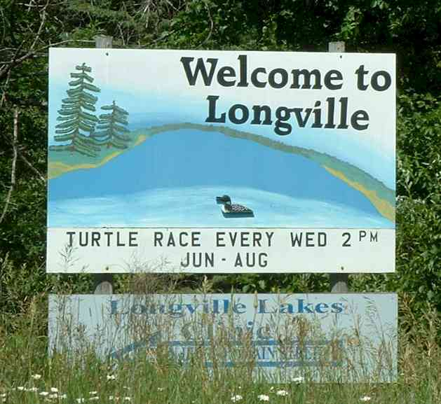 A welcome sign in the town of Longville, Minnesota, advertising its "turtle races every Wed." in the summer.